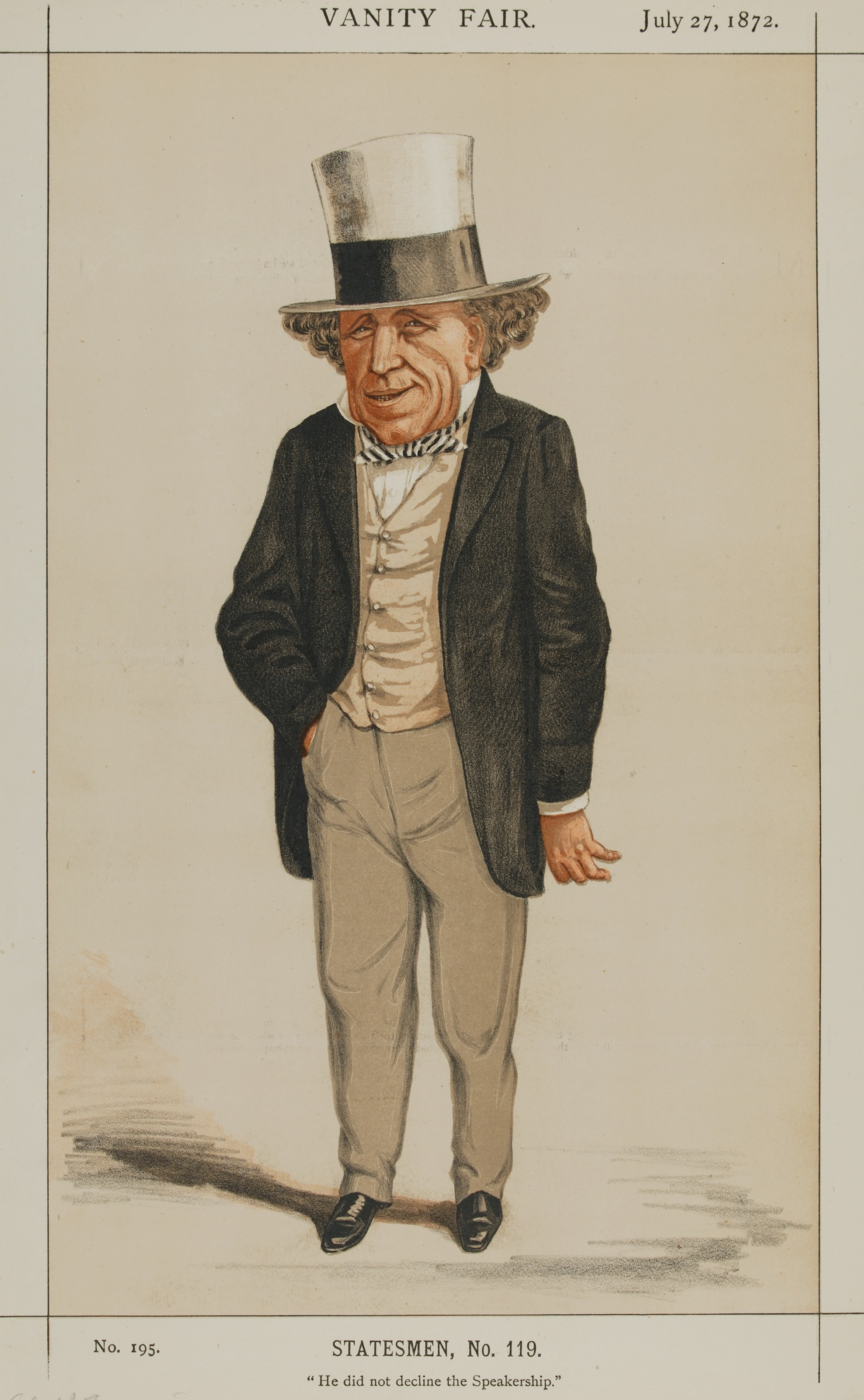 Statesmen No.119: Caricature of The Rt Hon Edward Pleydell-Bouverie MP. Caption reads: "He did not decline the Speakership."